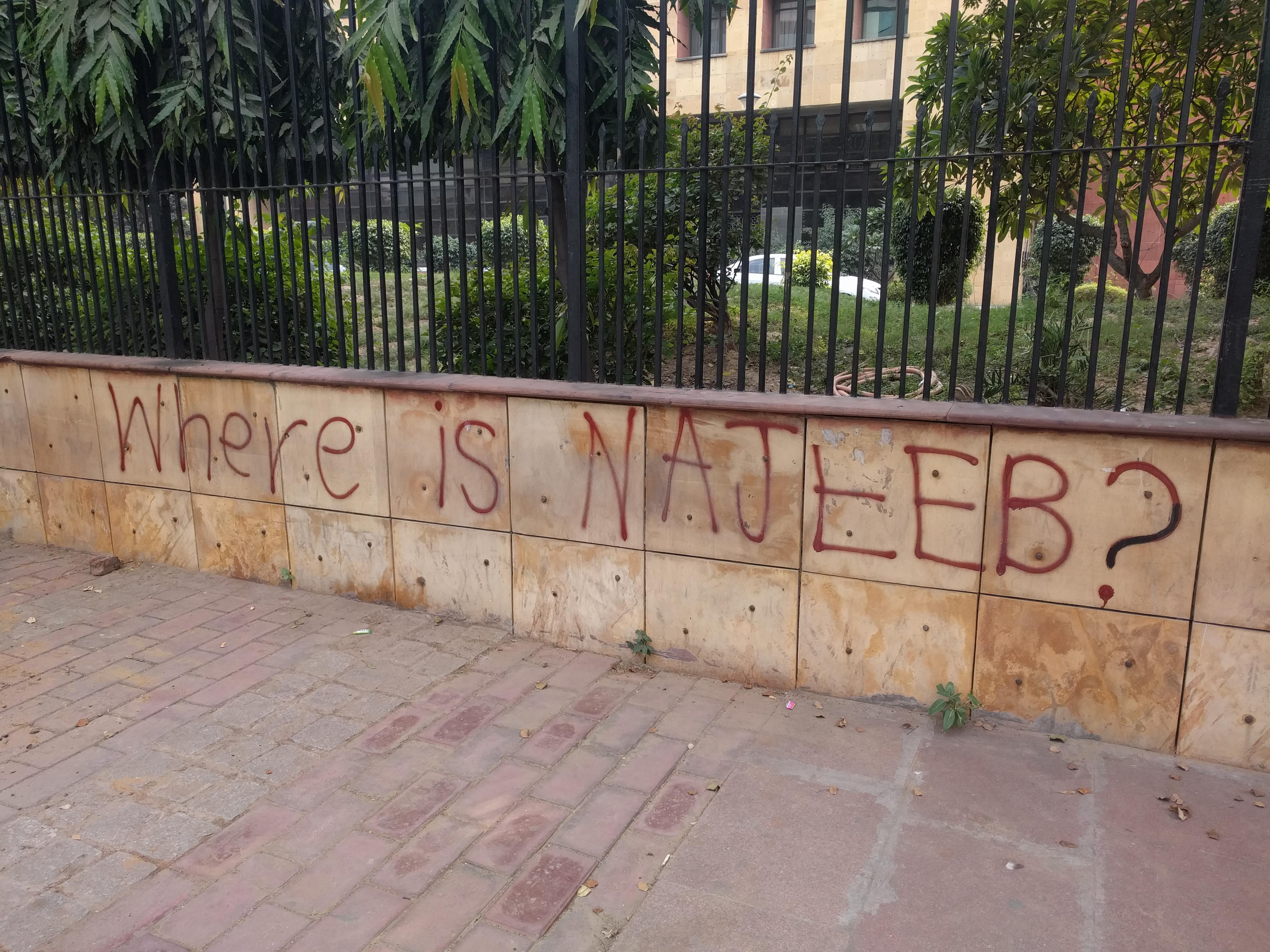 "Where is Najeeb" graffiti in front of Central Bureau of Investigation headquarters New Delhi. (The CBI headquarters is on the opposite side of the road, not pictured.) Najeeb Ahmed was a first year student at the Jawaharlal Nehru University in New Delhi, India who went missing under suspicious circumstances on 15 October 2016 from his hostel in the university campus, and hasn't been found till date.